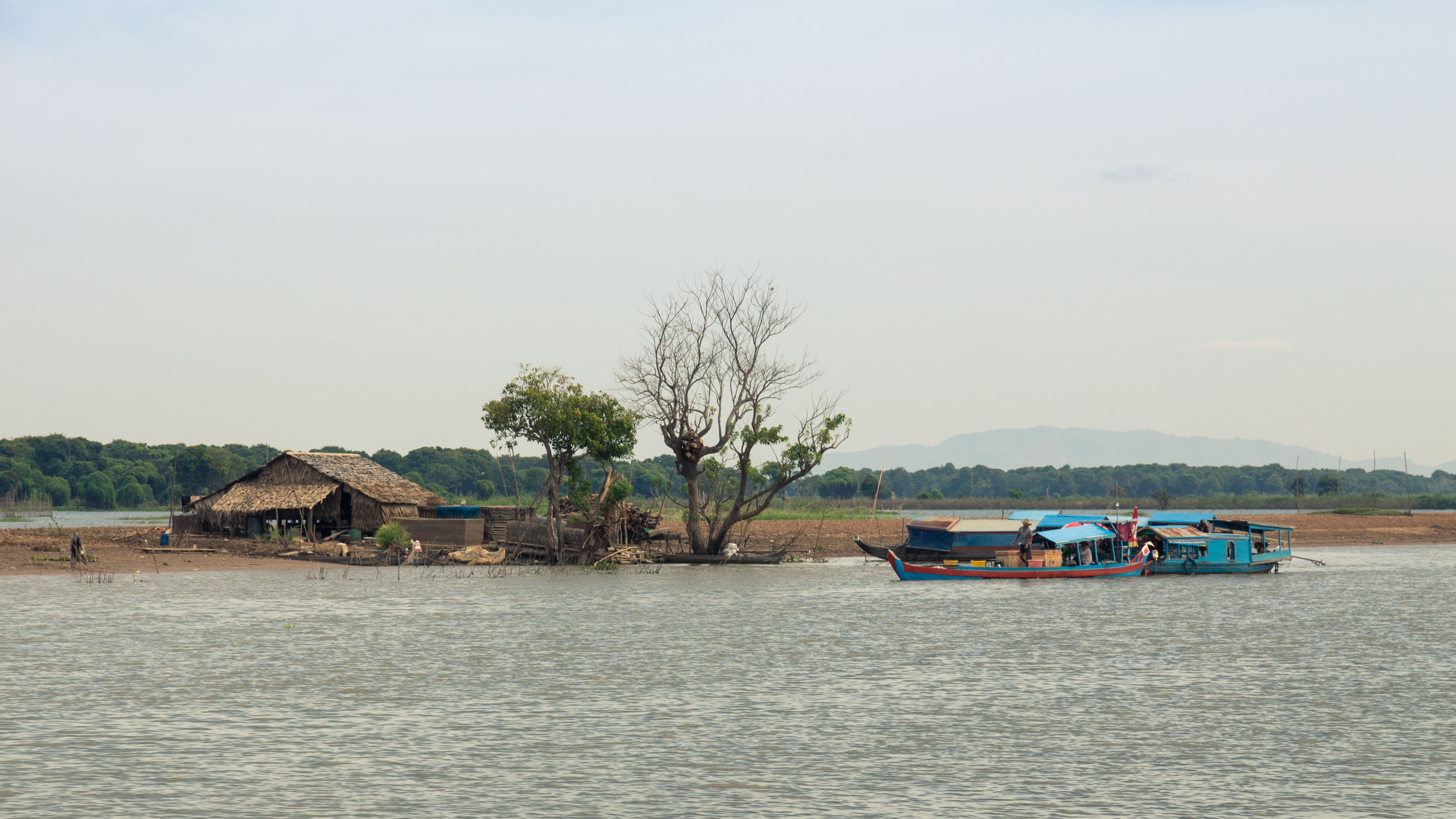 Tonle Sap inhabitants